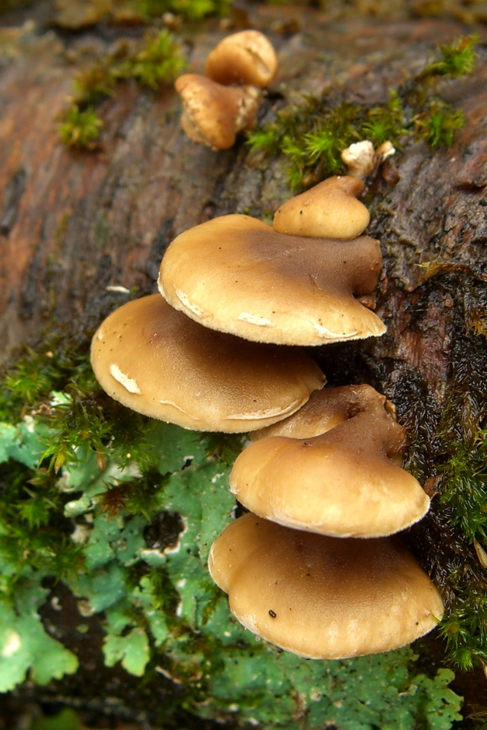 Fruit bodies of the fungus Tectella operculata (Berk. & M.A. Curtis) anon. (formerly Tectella patellaris). Specimens photographed in Cabin Cove, Haywood Co., North Carolina, USA. See Mushroom Observer page for detailed collection notes.